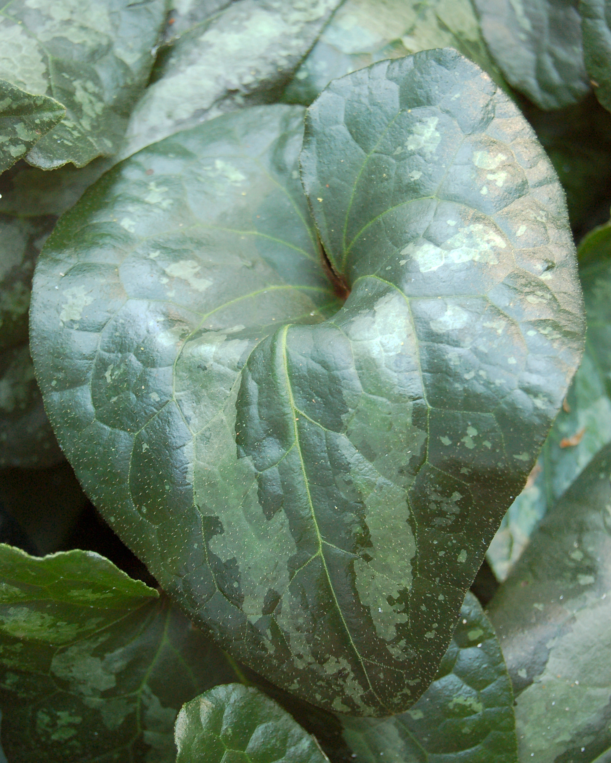 A photograph of the leaf of the Showy Sichuan Ginger (Asarum splendens). Photo taken at the Tyler Arboretum where it was identified.